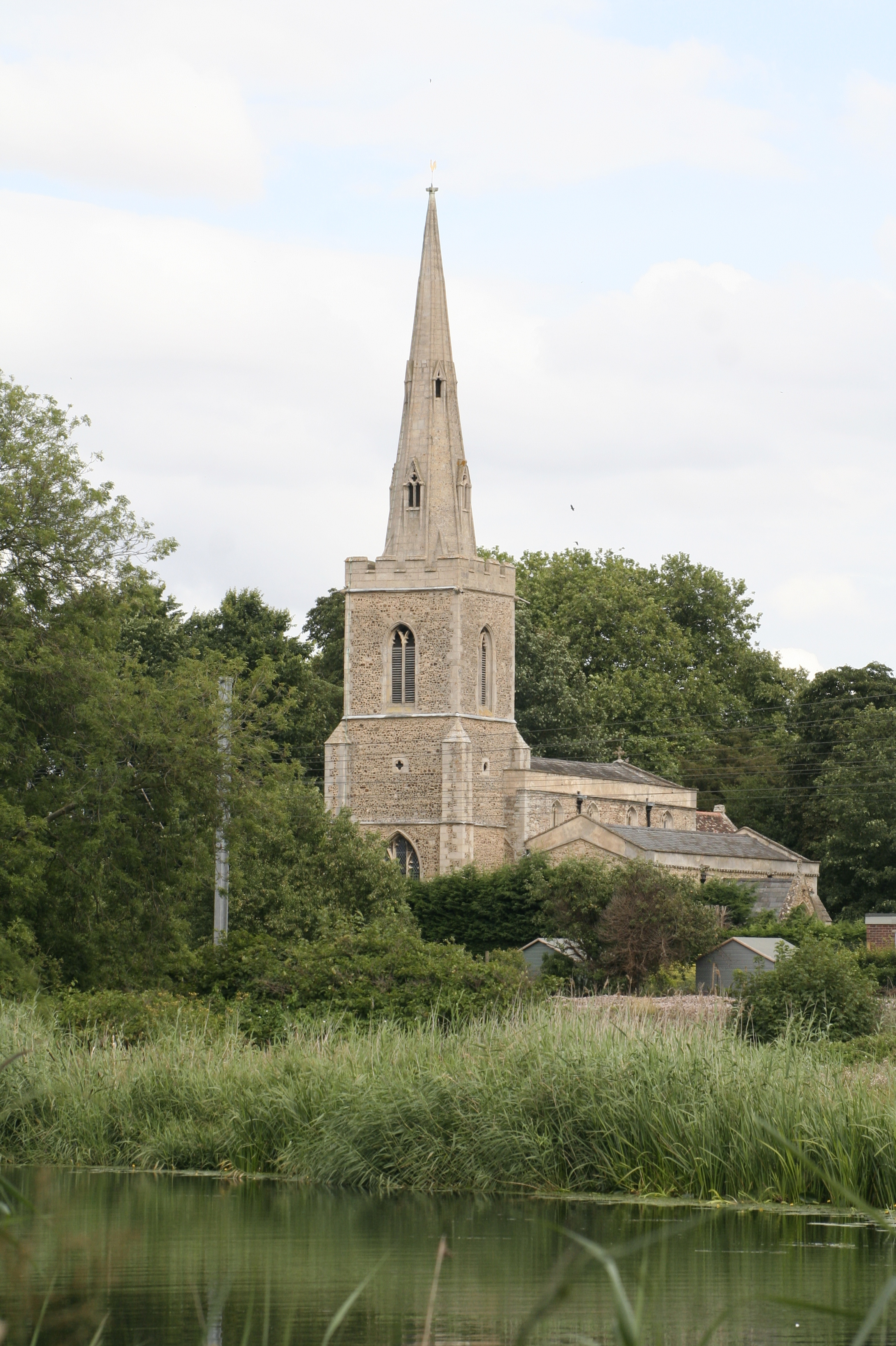 St Peter's Church, near to Offord D'arcy, Cambridgeshire, Great Britain